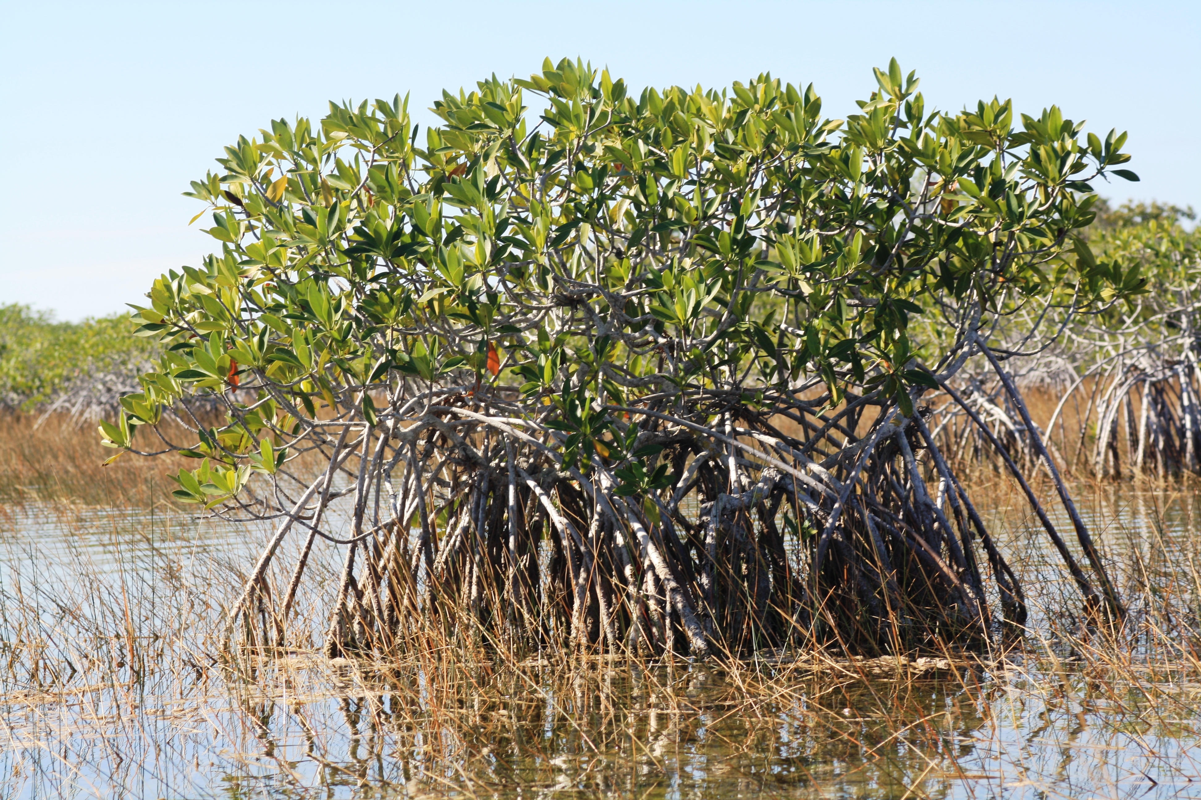 mangrove at 9 mile pond